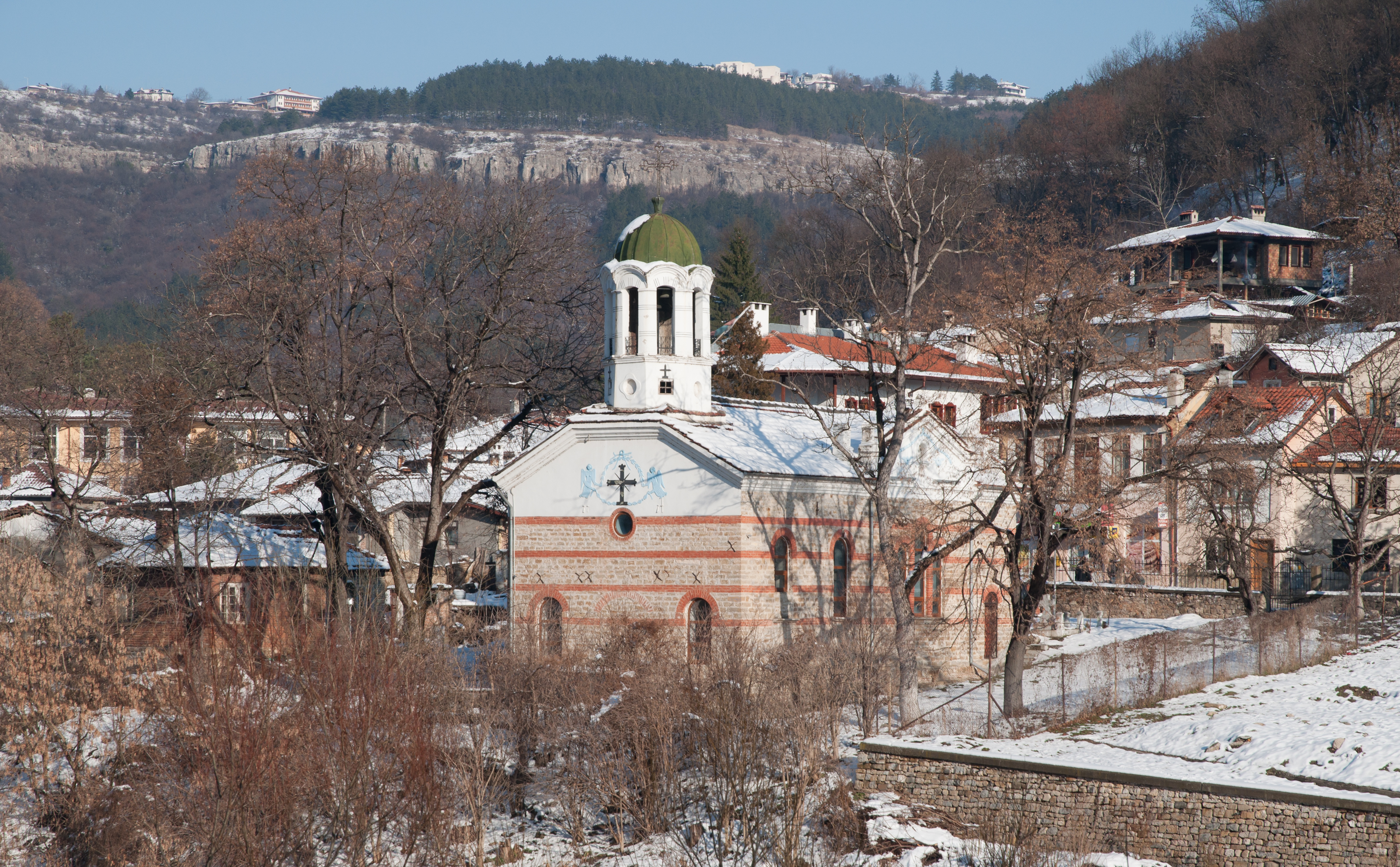 The Dormition of the Theotokos Church in Asenova Mahala, Veliko Tarnovo, Bulgaria.